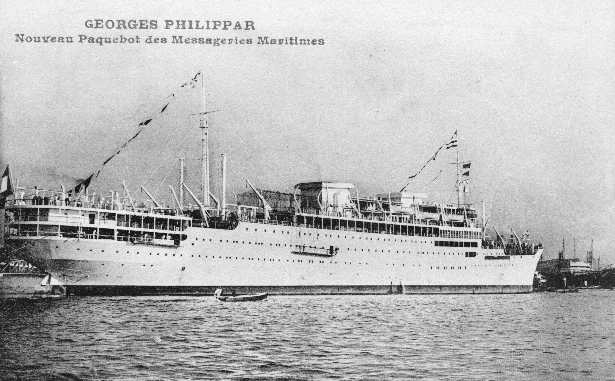 16,990 GRT ocean liner Georges Philippar, built in 1930 by Ateliers et Chantiers de la Loire in St Nazaire for Messageries Maritimes. In May 1932 she caught fire and sank in the Indian Ocean off Yemen with the loss of 54 lives.